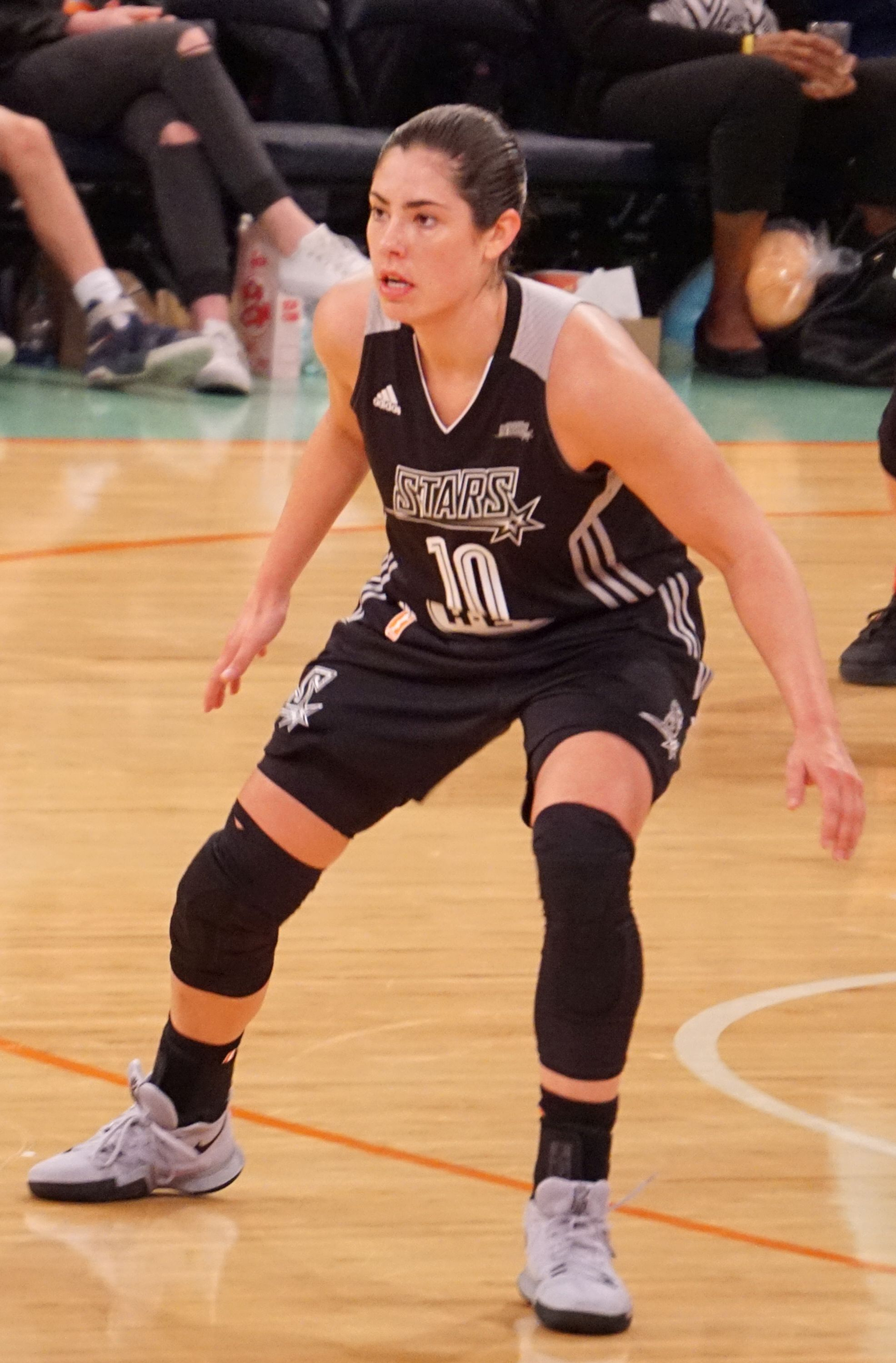 Kelsey Plum, player for San Antonio Silver Stars. in a game between San Antonio and the New York Liberty